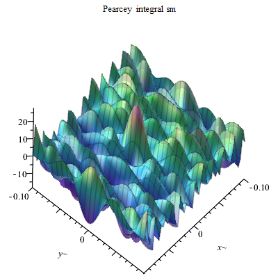 Pearcey Integral 3D Maple plot